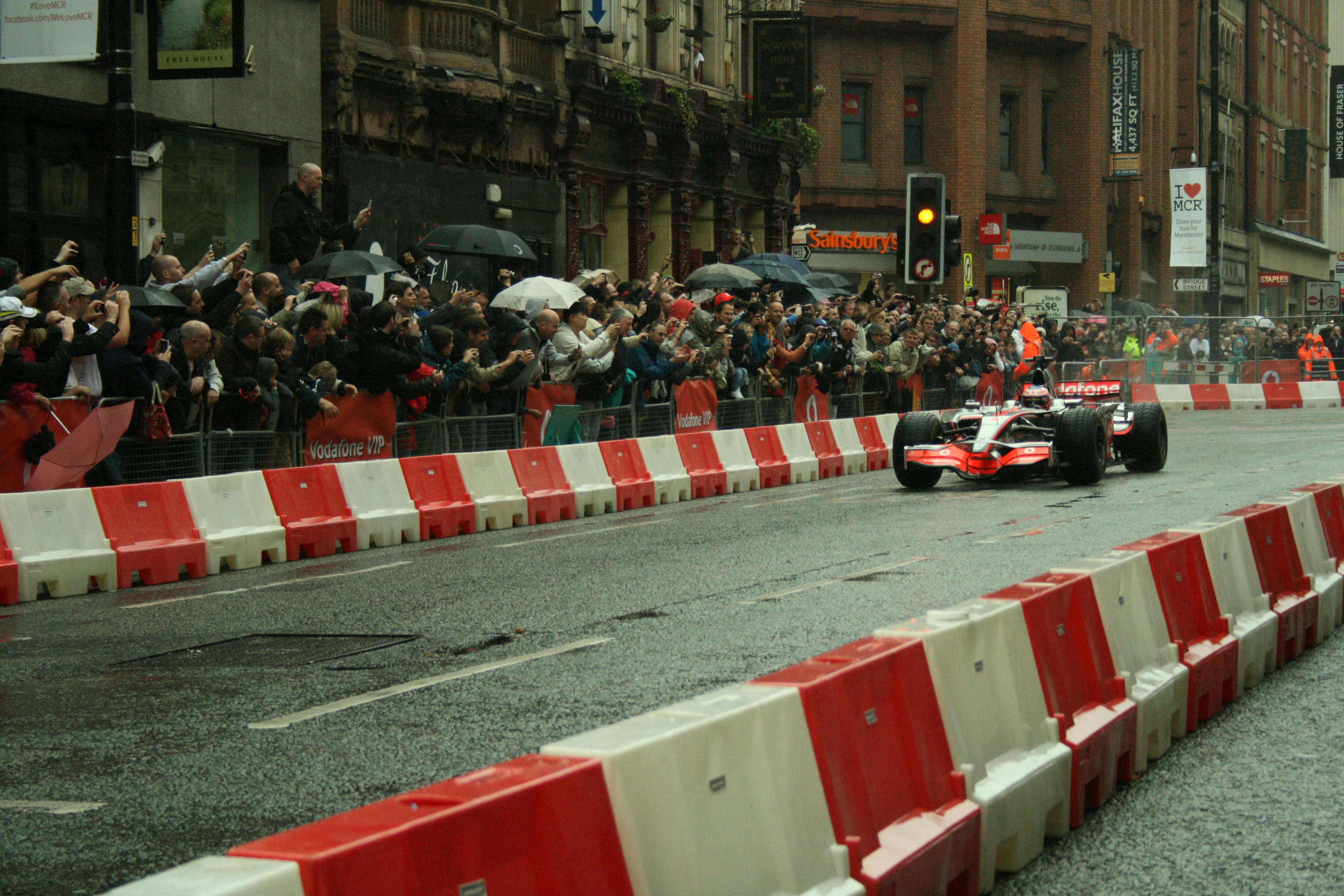 Deansgate was shut for a day in August 2011 as Jenson Button drove a McLaren MP4-23 around the city.